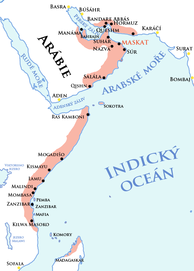 Map of Sultanate Muscat and Oman and its dependencies (Omani empire) in 1856 (before partition).